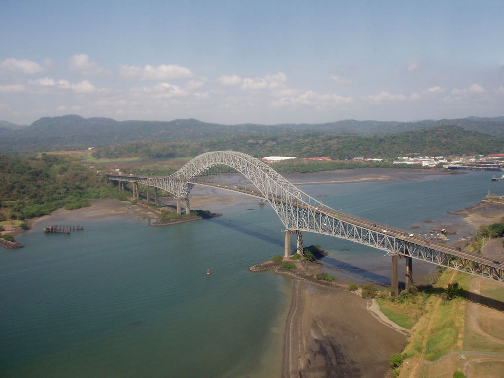 Aerial view of the bridge crossing the entrance to the canal.